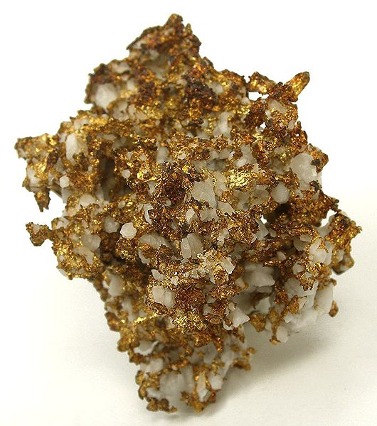 Gold, Copper Locality: 16 to 1 Mine, Grass Valley, Alleghany, Forest District (Alleghany; Chips Flats; Minnesota), Sierra County, California, USA (Locality at ) Size: 4.4 x 3.9 x 3.2 cm. The 16 to 1 mine is famous for these strangely colored gold specimens, and it turns out that the patina is in part due to a bit of copper present, and mixed in with, the gold. This is an unusual effect in nature, gold being the noble metal and notoriously difficult to get to alloy in nature. Yet, here we have it, and with a very fine color as a result, sort of a more bronzey-gold hue. From an old gold country collection purchased from a family, several years ago. Mass is 66 grams (2 troy ounces plus a bit). Of this, most of that mass, at a guess 85% or more, is gold.